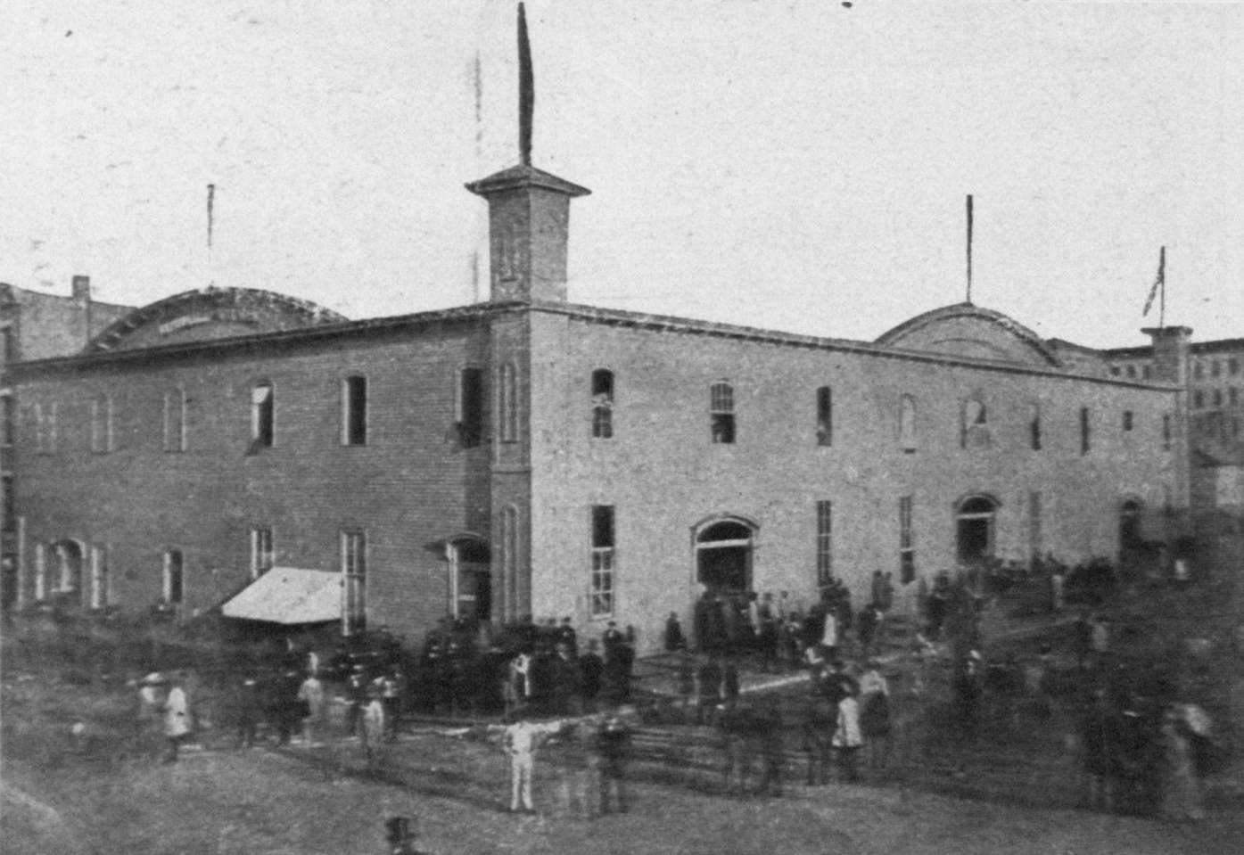 A view of the “Wigwam”, the wooden structure in Chicago, Illinois, where the convention was held in 1860 which nominated Abraham Lincoln for president of the United States.